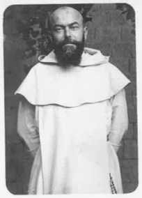 Edouard Dhorme, Jérusalem, 13 mai 1923